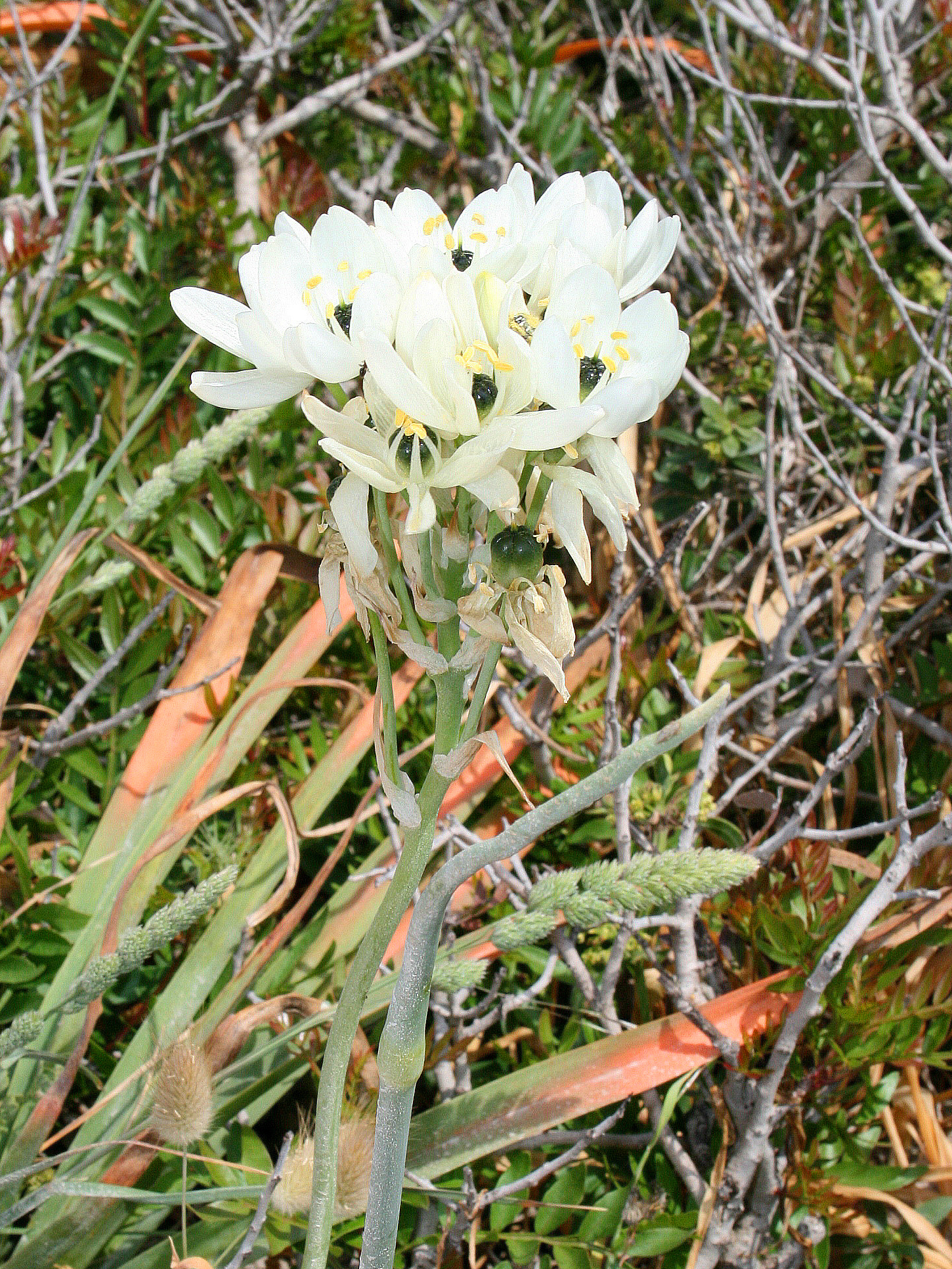 Arabian Star Flower ( Ornithogalum arabicum ) - Habit: Bonifacio ( Corse-du-Sud) - France, place de l’Europe. Walon: Ornitogale d’Arabîye ( Ornithogalum arabicum ) - Place: Bonifacio (Corse-do-Sud) - France, place di l’Europe.